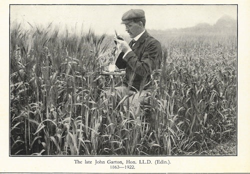 John Garton, Plant Breeder, at work